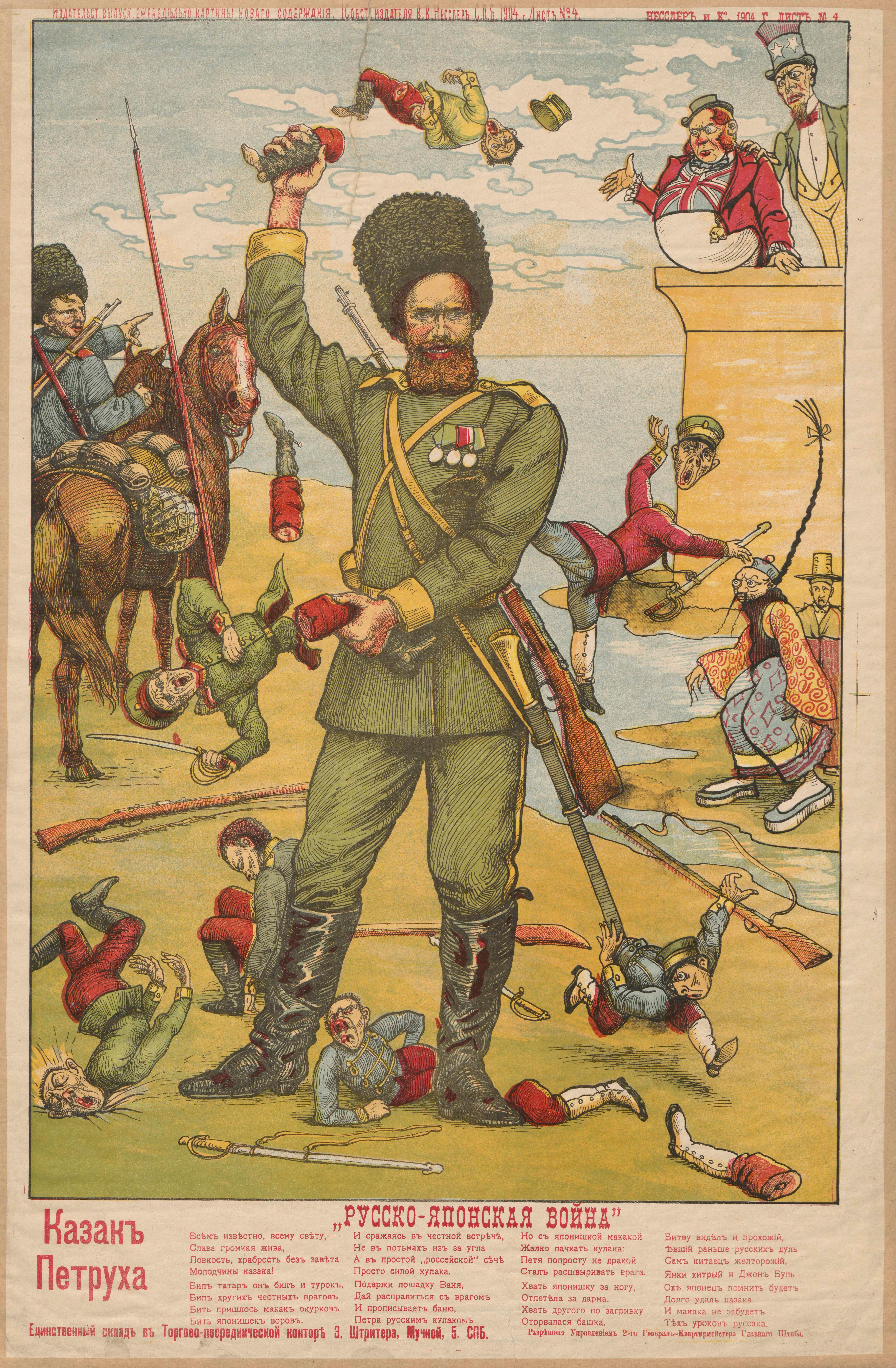 Russian Empire poster 1904.